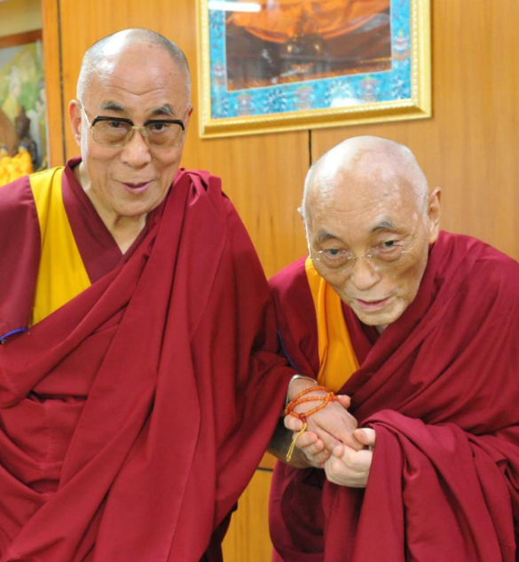 His Eminence Chöden Rinpoche during a private audience with His Holiness, the 14th Dalai Lama, Tenzin Gyatso. (Cropped Portrait version)